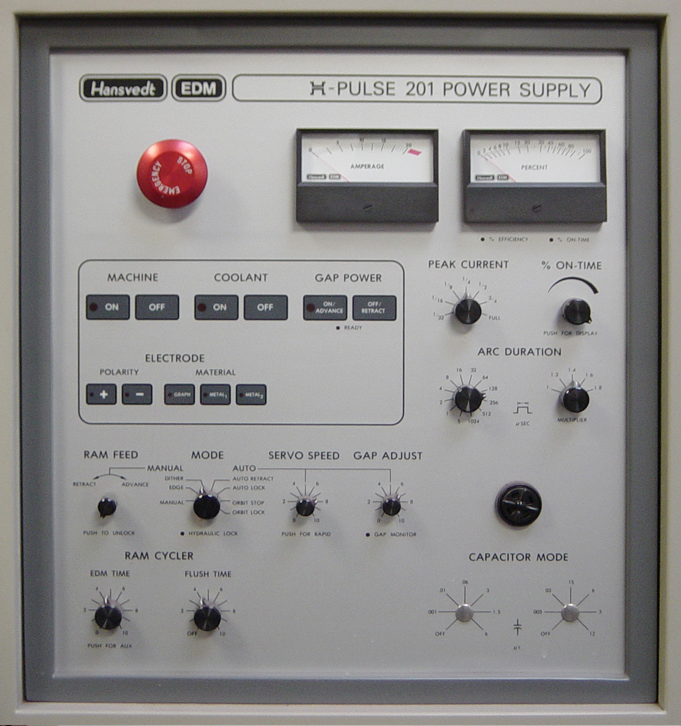 Hansvedt EDM machine controls. Image by User:Leonard G.